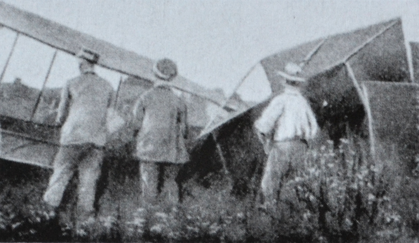 The wreck of Gianni Caproni's Caproni Ca.1 experimental biplane after the crash landing that ended its first flight. Malpensa, Varese, May 27, 1910.